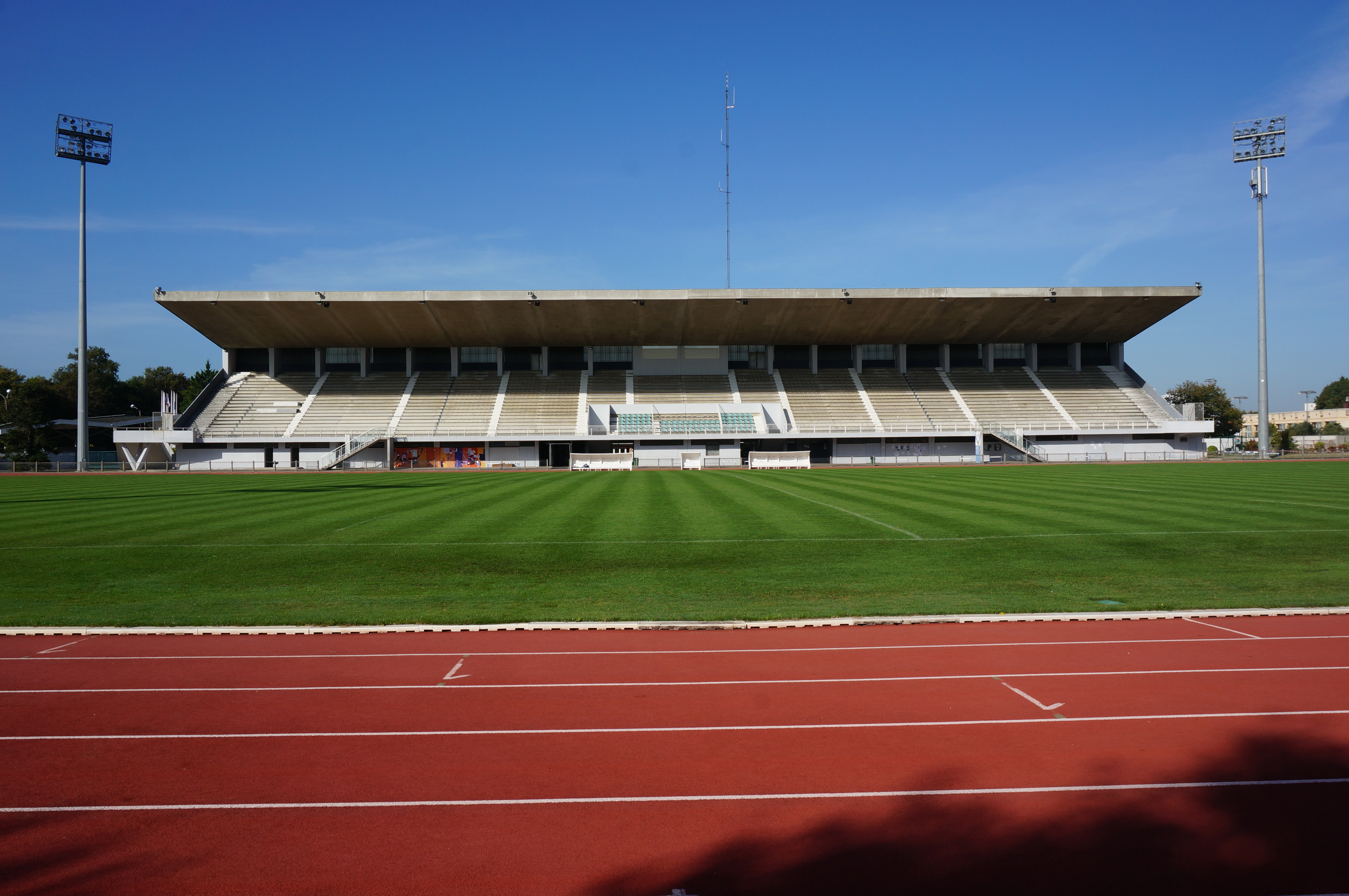 Robert Brettes Stadium in Merignac (Gironde, France).